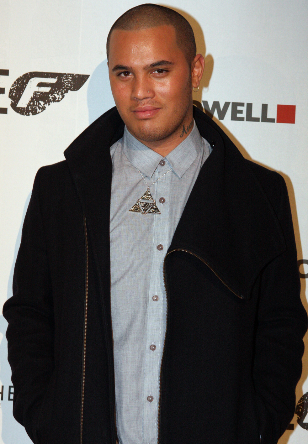 Stan Walker at the Natasha Bedingfield Attends the 2013 Australian Hair Fashion Awards.